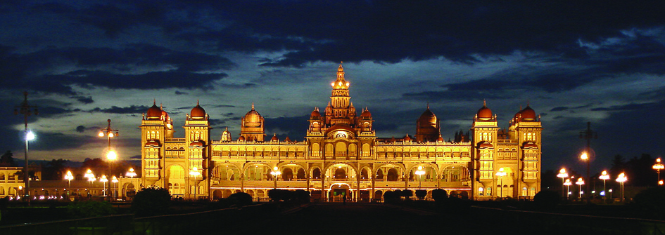 The Palace of Mysore (Kannada: ಮೈಸೂರು ಅರಮನೆ) is a palace situated in the city of Mysore, state of Karnataka in southern India.